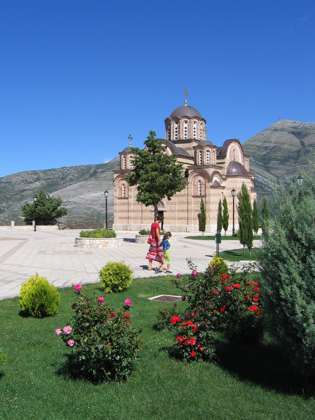 Herzegovinian Gracanica, Church in Trebinje on Crkvina Hill